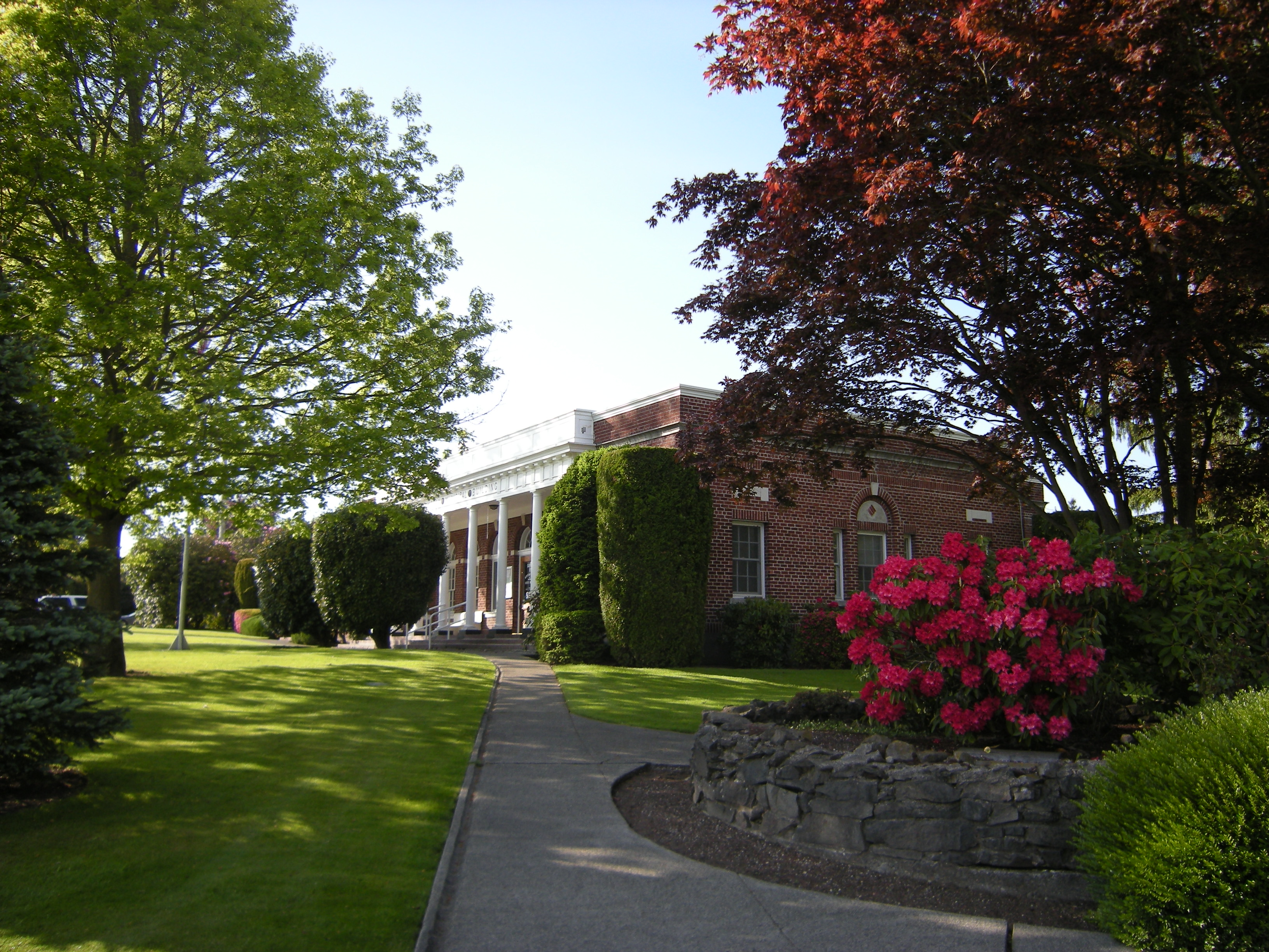 City Hall/Municipal Building, Griffin Avenue, Enumclaw, Washington, USA.